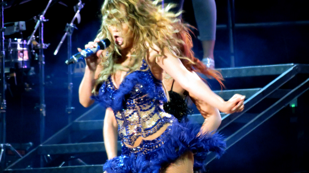 Jennifer Lopez live at the Pop Music Festival in São Paulo, Brazil.